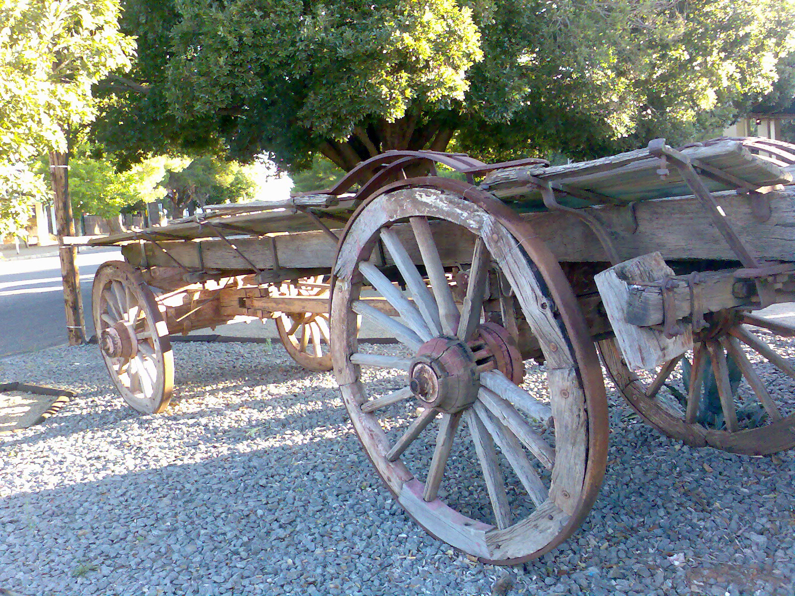 Ox wagon at Aliwal North, Eastern Cape, South Africa